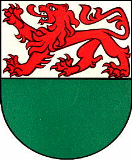 Blazon of Kesswil, Canton of Thurgau, SwitzerlandEsperanto: Blazono de Kesswil, Kantono Turgovio, Svislando